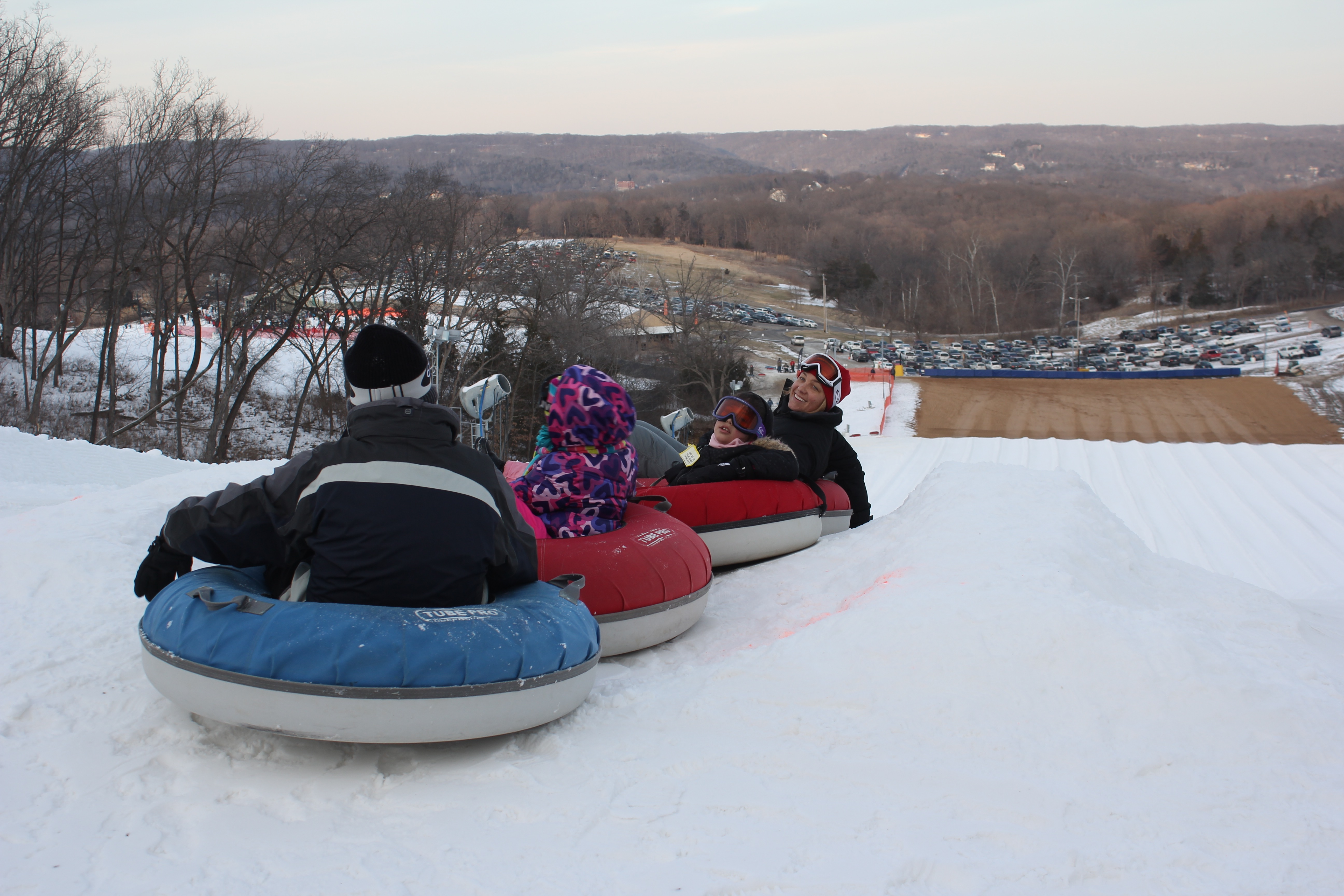 Family experiences Hidden Valley Ski Area's Polar Plunge Tubing hill